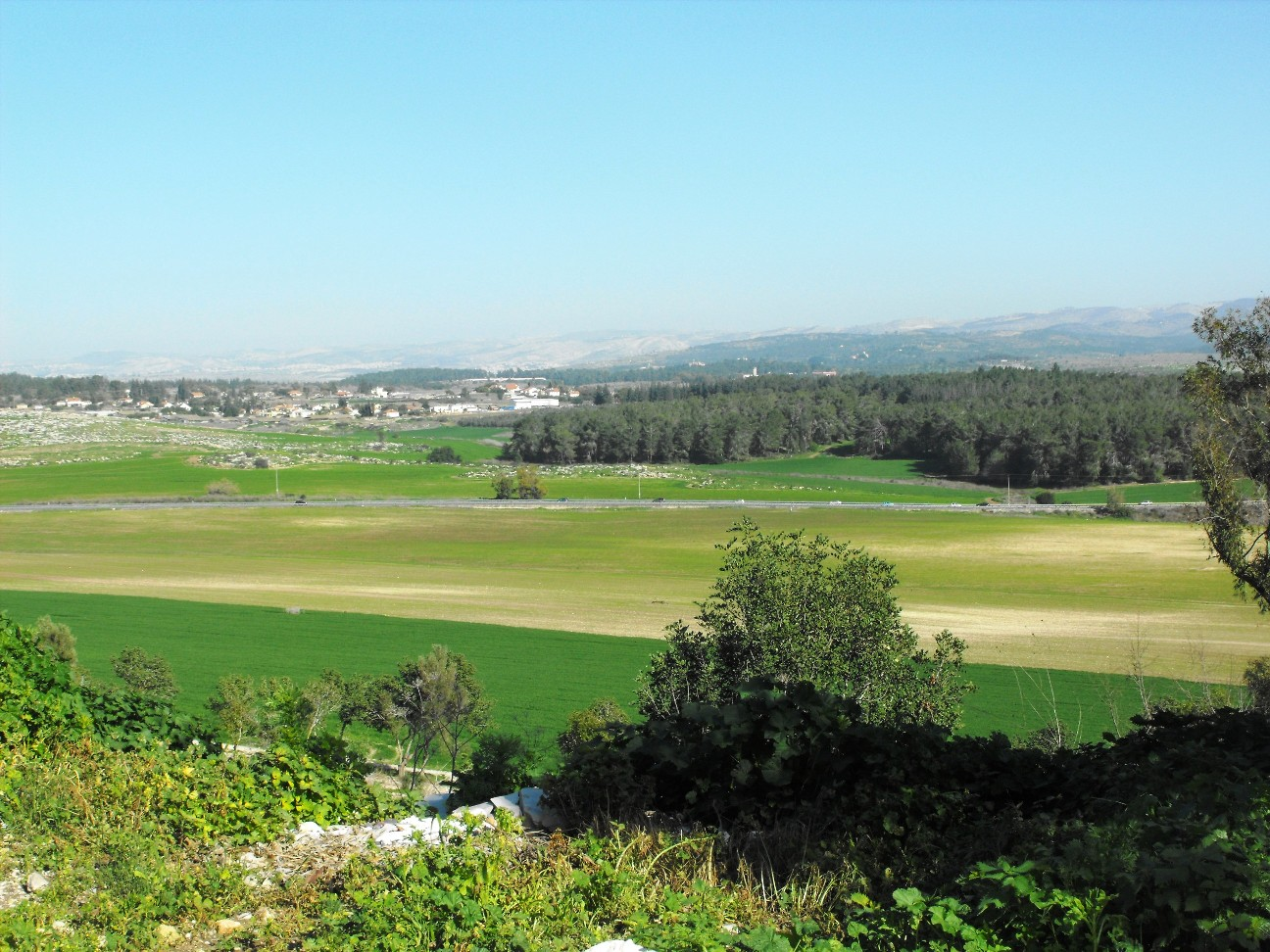 Plants of Israel